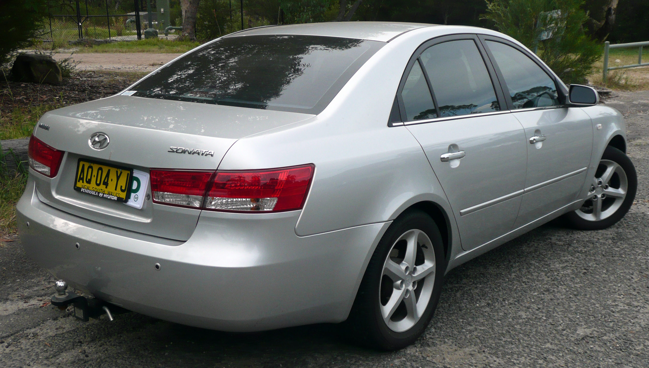 2005–2008 Hyundai Sonata (NF) Elite sedan. Photographed in New South Wales, Australia.